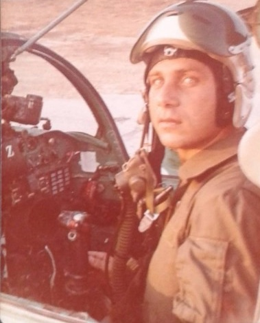 Hassan ElRafie in his plane